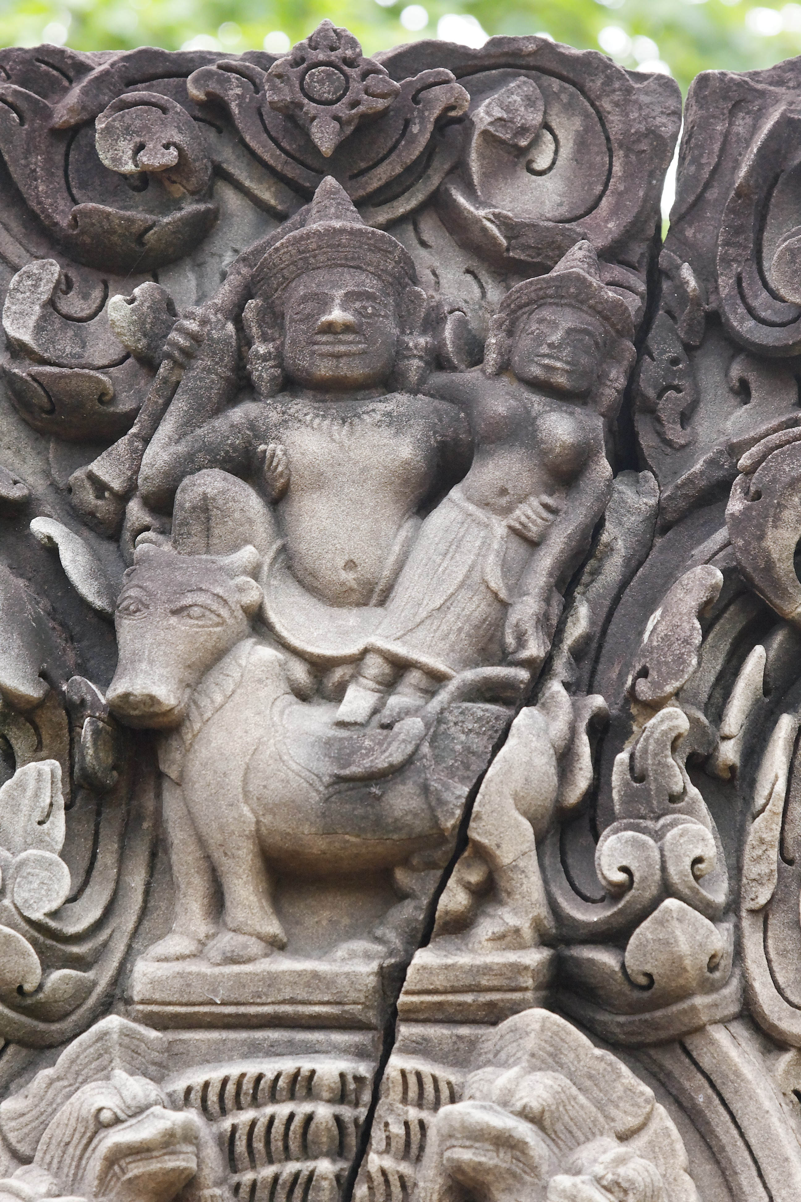 Prang Song Phi Nong, Thailand